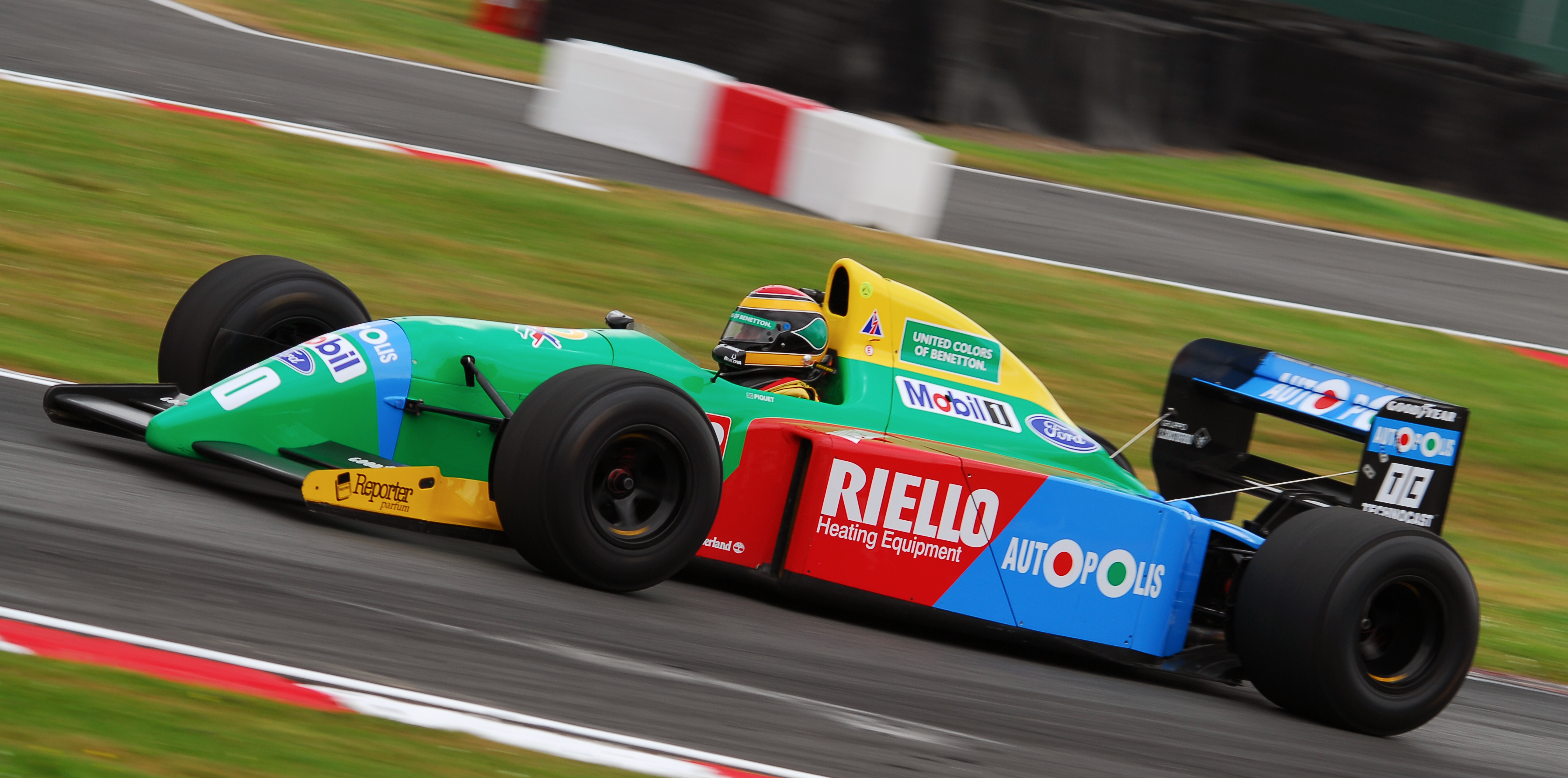 Time Attack Round 4 20th July 2013 Oulton Park